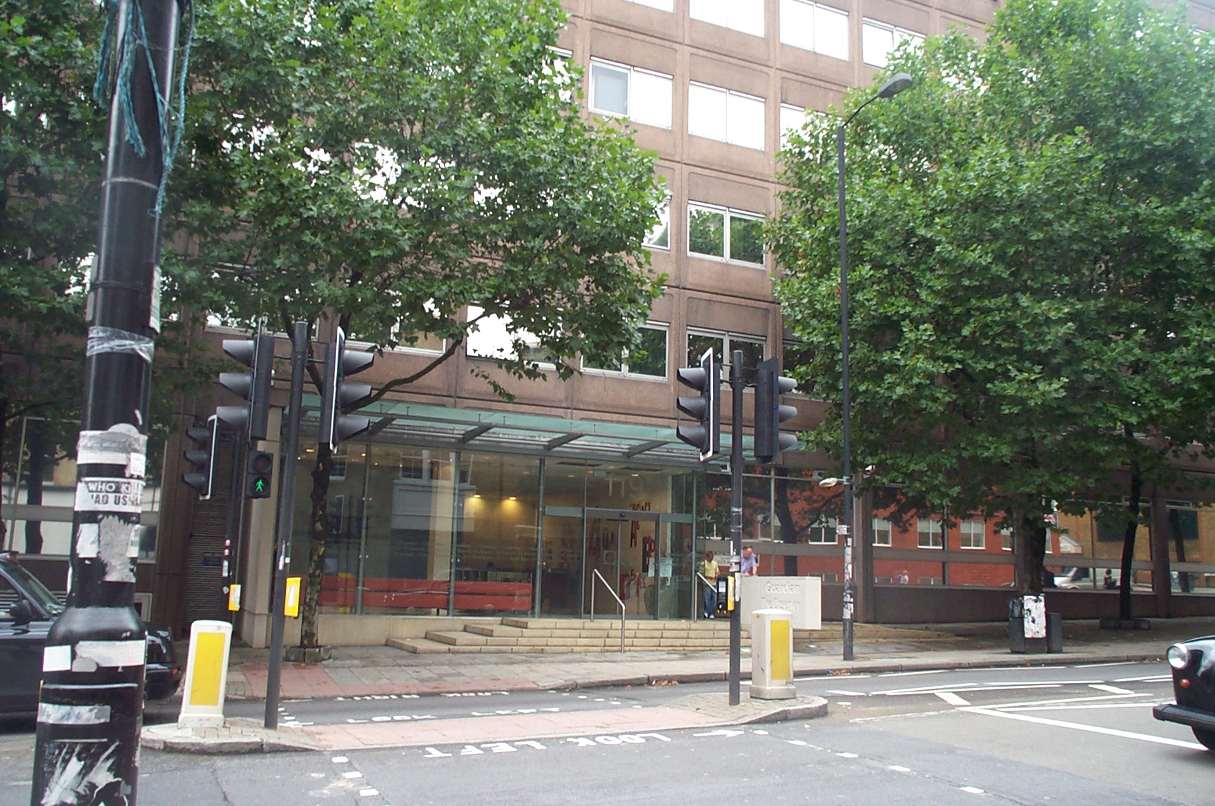 The Guardian's headquarters in London, 2004-08-27. Copyright 2004 © Kaihsu Tai.